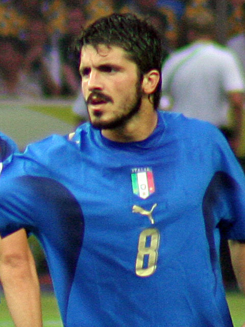 Italy vs France, FIFA World Cup 2006 final, italian midfielder Gennaro Gattuso.